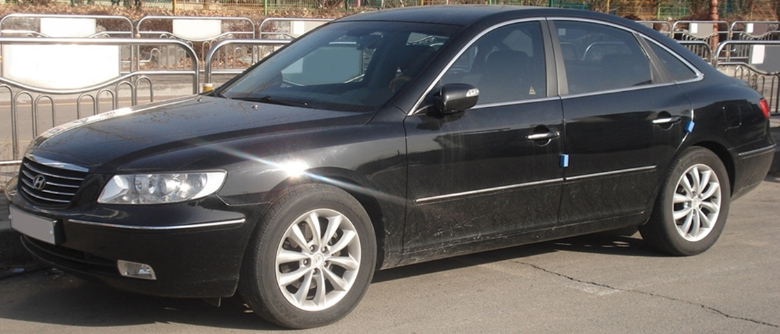 Hyundai Grandeur